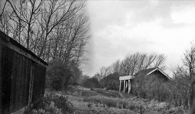 w:Biddenden railway station. View NW, towards Headcorn; Kent & East Sussex Light Railway, Headcorn - Robertsbridge, closed 4/1/54. (Tenterden - Bodiam has subsequently been reopened by the K&ESR Heritage Railway).